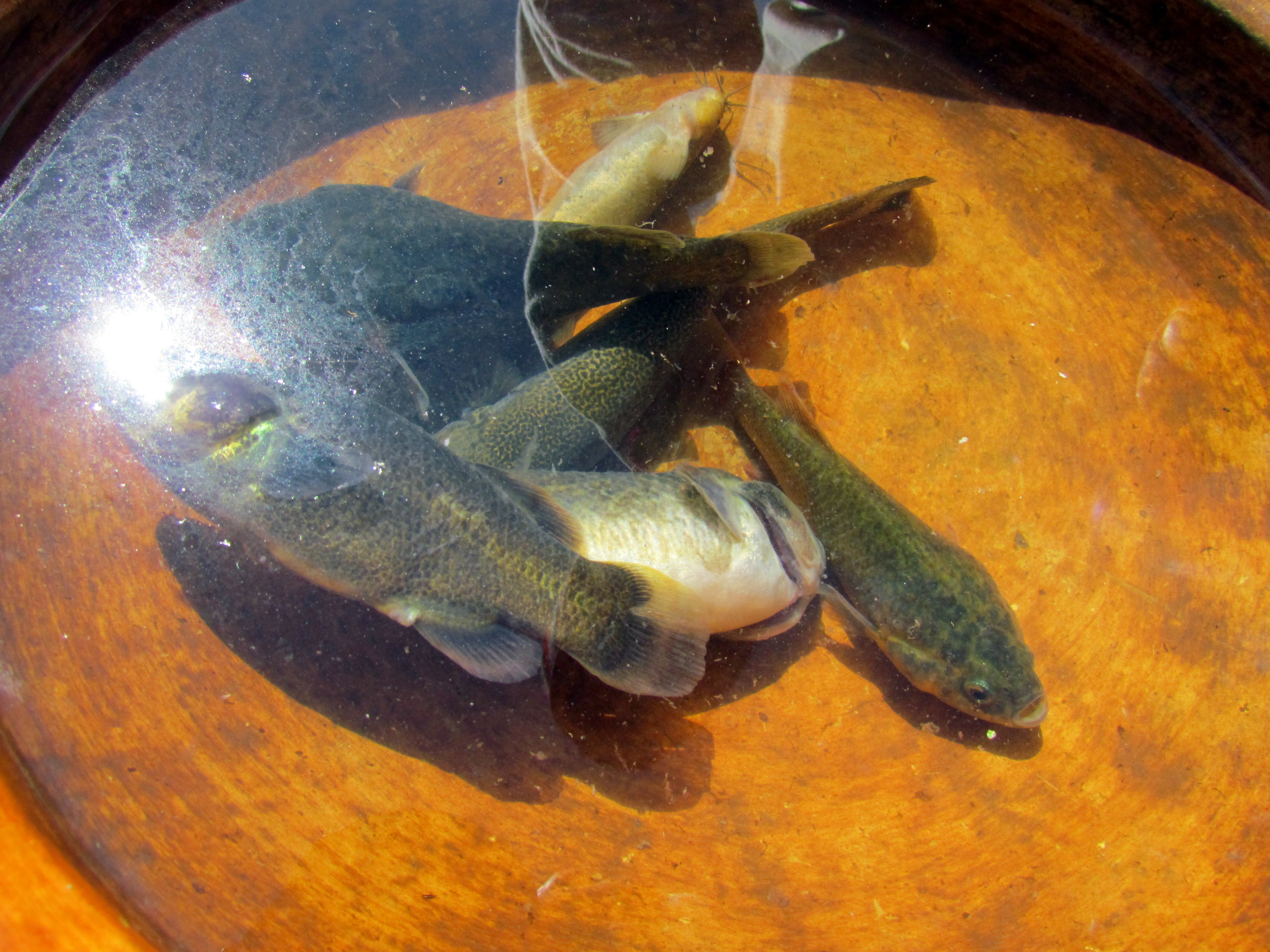 046 Fish Uros Islands of Reeds Lake Titicaca Peru 3096. There are four Orestias (possibly O. luteus) and two Trichomycterus (either T. dispar or T. rivulatus)